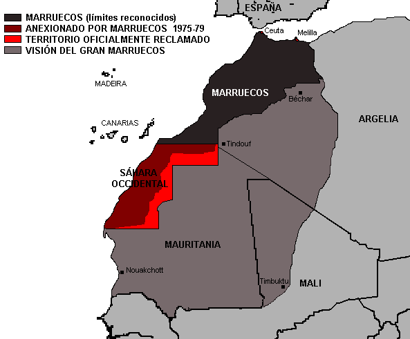 Great Morroco.